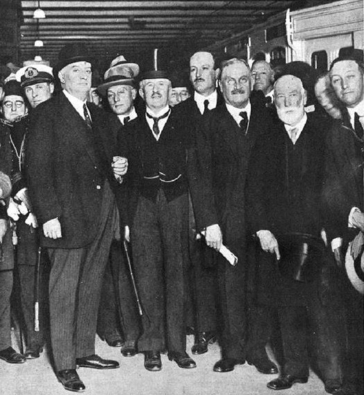 President of Argentina, Marcelo T. de Alvear, during the inauguration of BA Western Railway's electric service from Once to Moreno, at Plaza de Mayo station of Buenos Aires Underground.